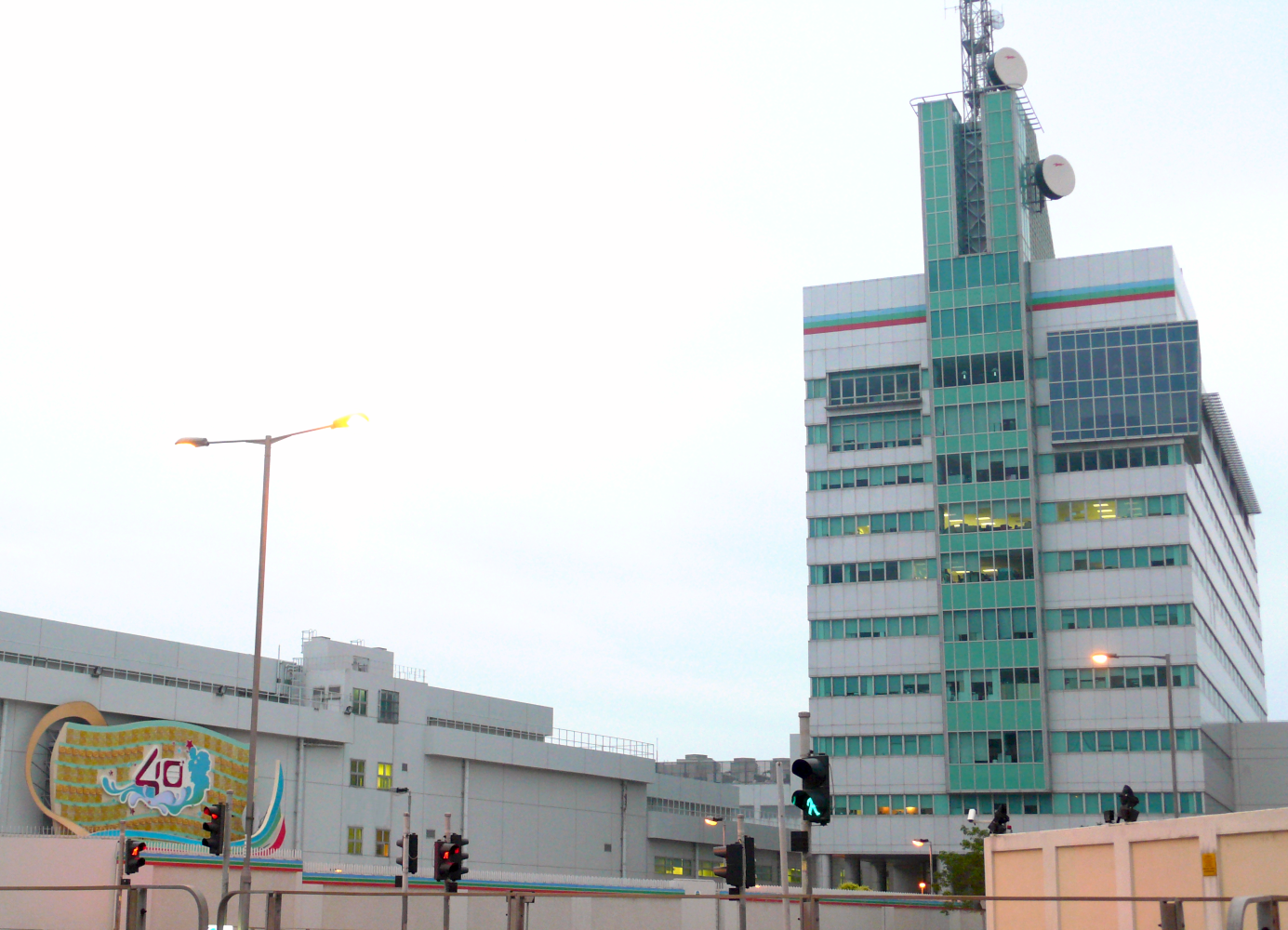 Stuido 1 of TVB city